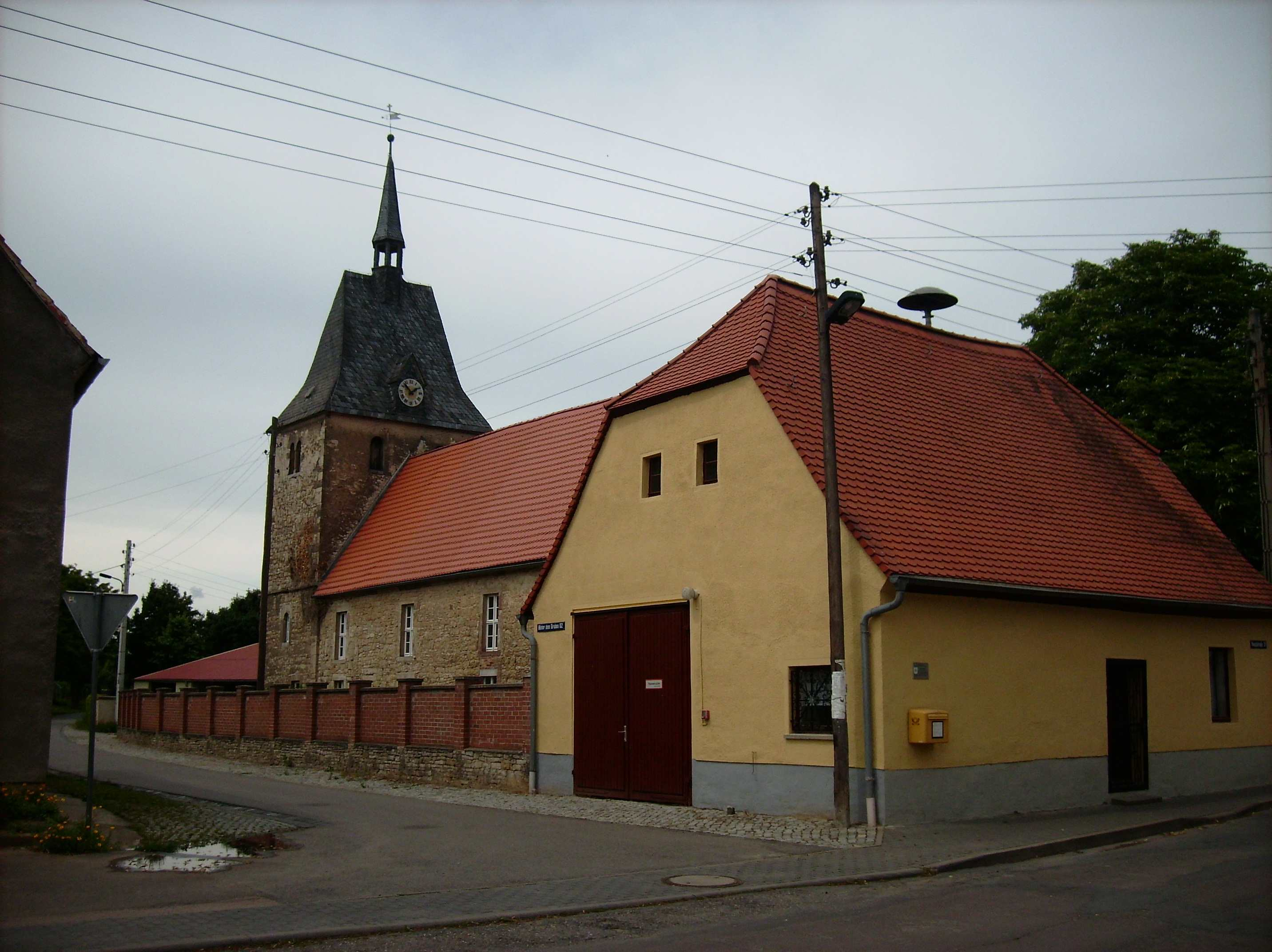 Schnellroda church (Steigra, district of Saalekreis, Saxony-Anhalt)